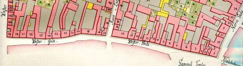 The street Vestergade seen on a detail from Gedde's map of Nørre Kvarter in Copenhagen, Denmark